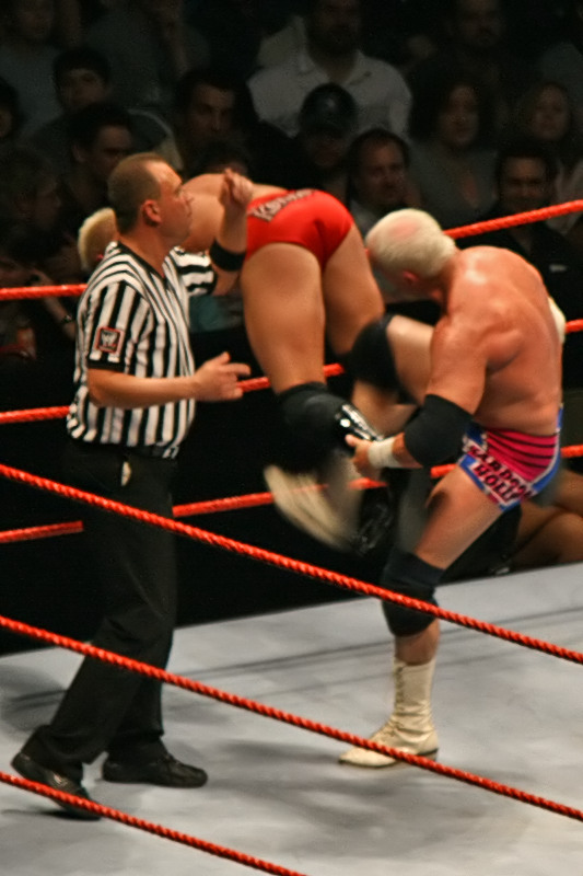 Bob 'Hardcore' Holly (Robert Howard) performs an "Overhead Cam" (a kick to the midsection of a rope-hung opponent) on Mr Kennedy. Taken during the WWE Raw - Survivor Series Tour, at Rod Laver Arena, Melbourne Park, Melbourne, Australia. Holly wrestled Mr Kennedy on the night; the match was won by Kennedy pinning Holly with a roll-up.